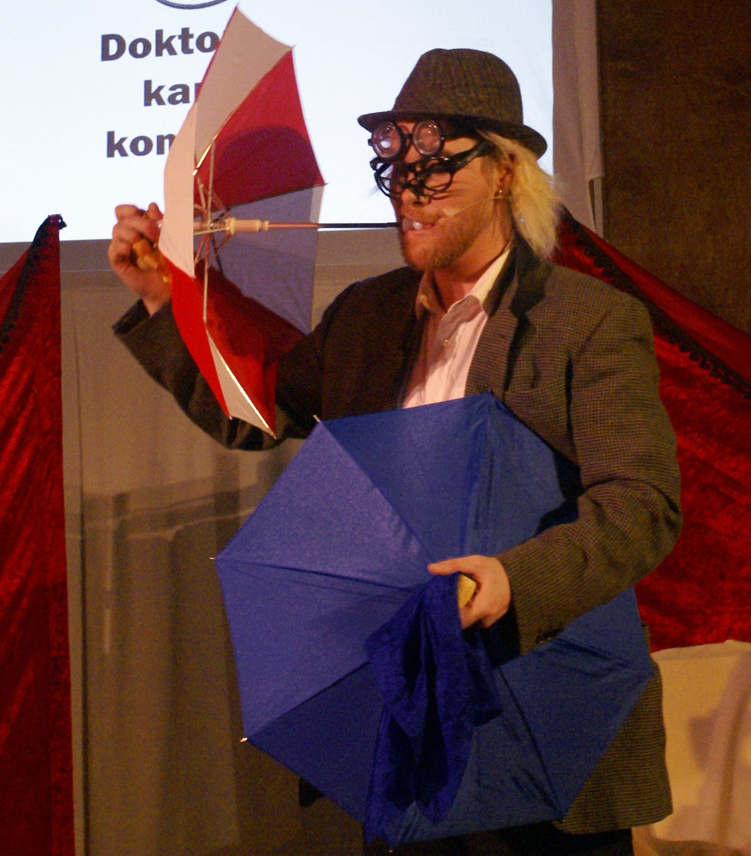 Clowns without borders in Sweden, see Clowner utan gränser